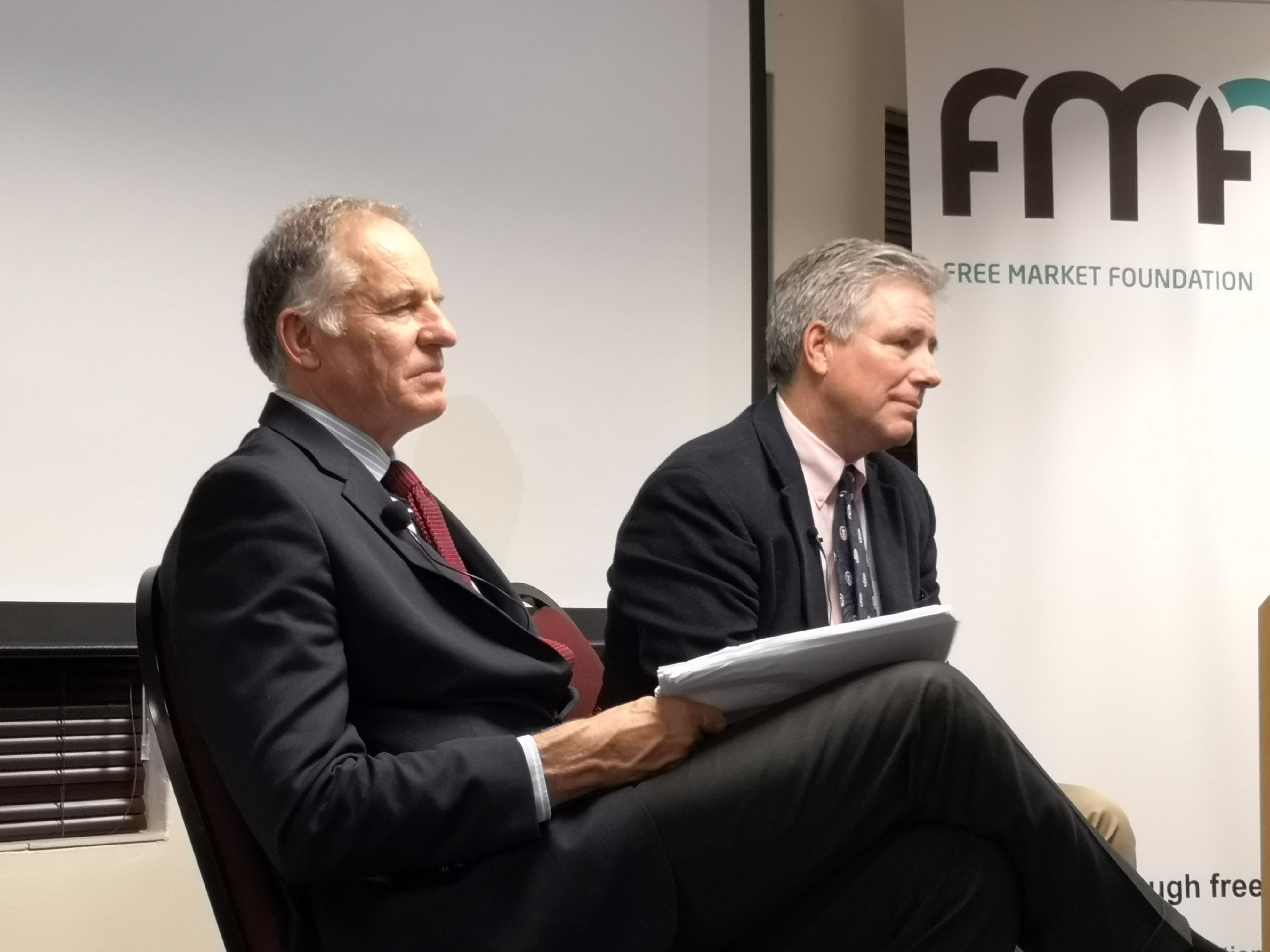 Advocate Frans Rautenbach (Cape Bar) and Dr Daniel J Mitchell (Center for Freedom and Prosperity) speaking at the Free Market Foundation in Johannesburg, South Africa, about the Rule of Law.